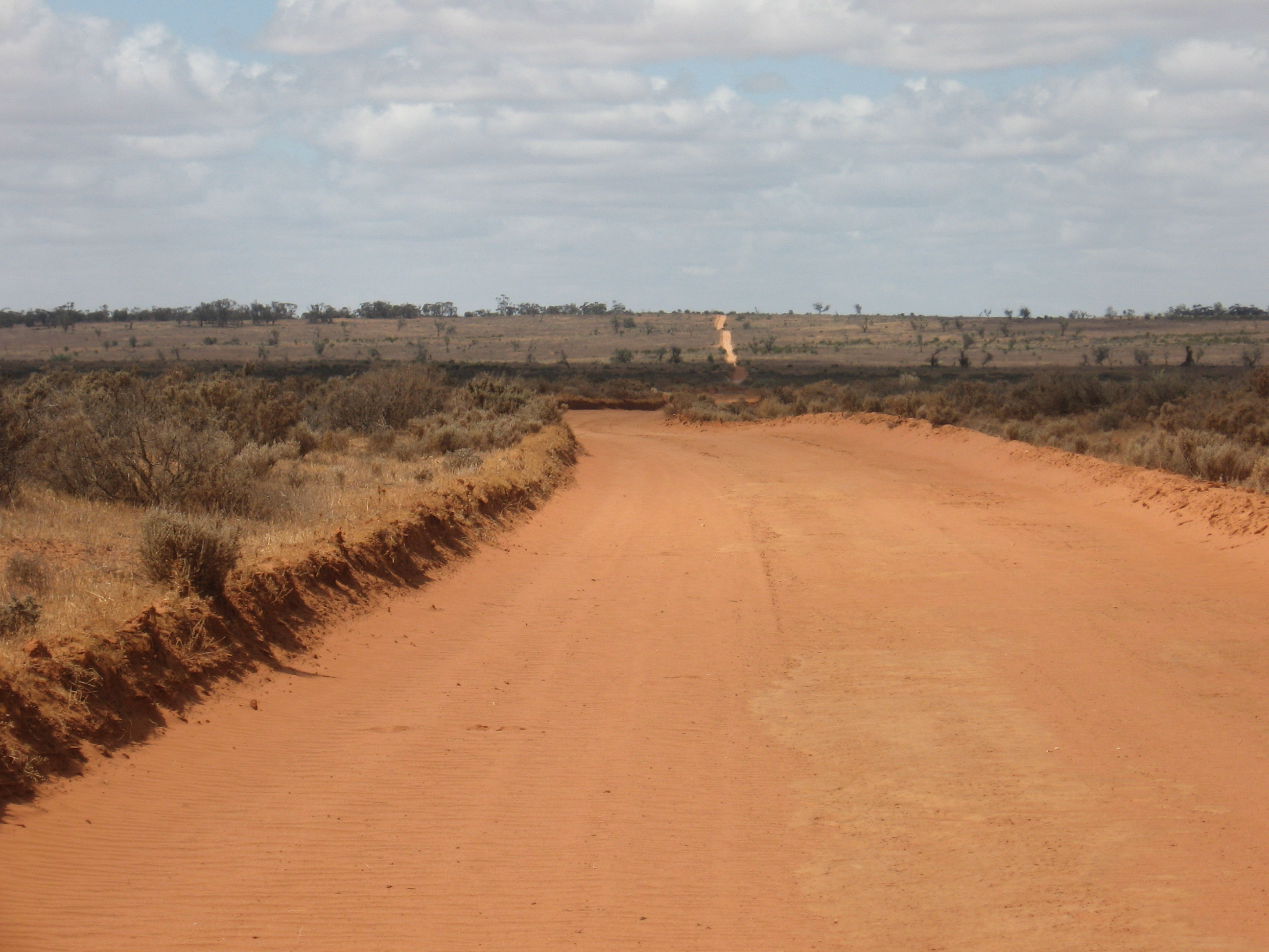 Dirt Track in Murray Sunset National Park, near Pink Lakes, Australia